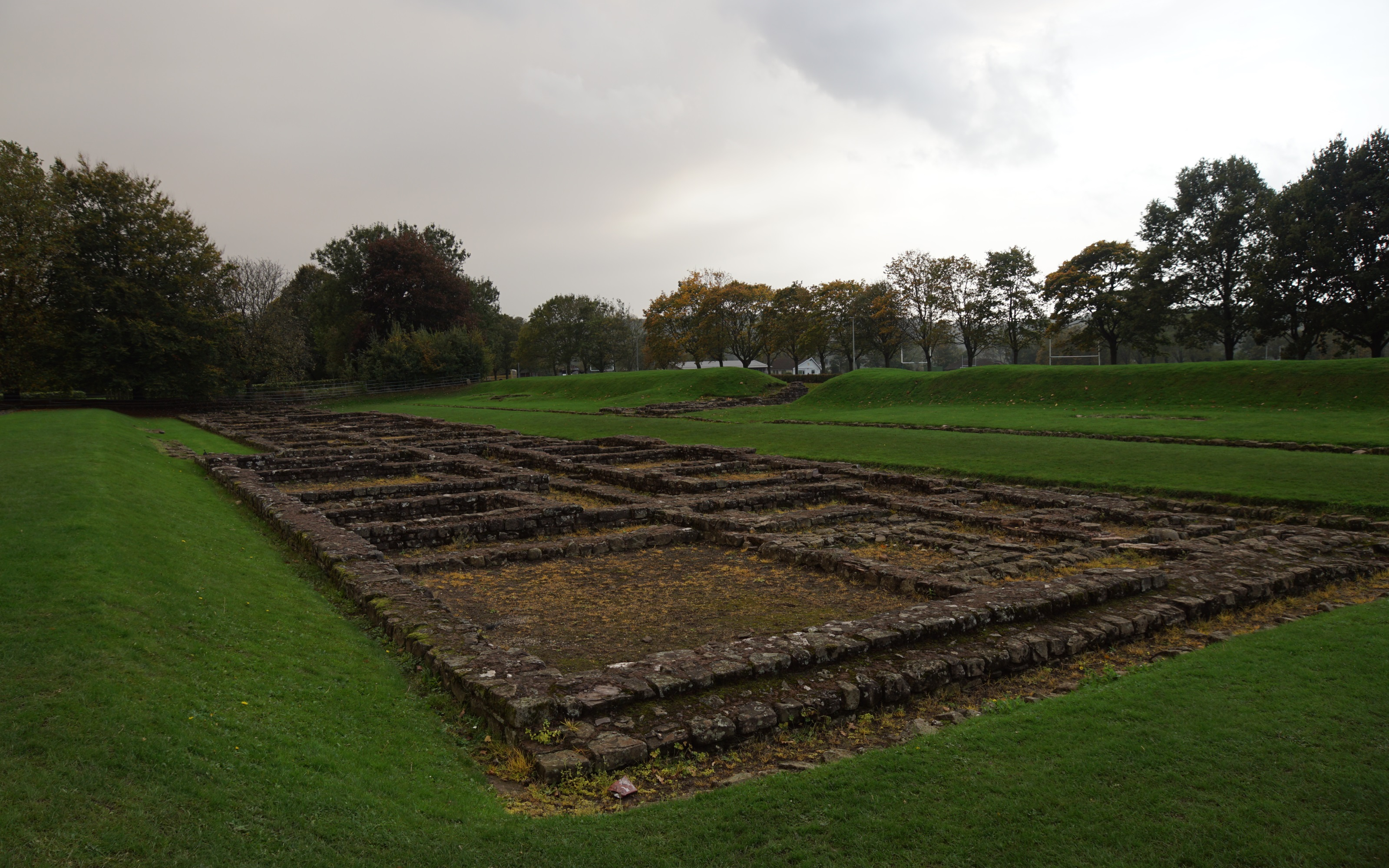 Roman Fortress Barracks, Caerleon, Wales, United Kingdom.